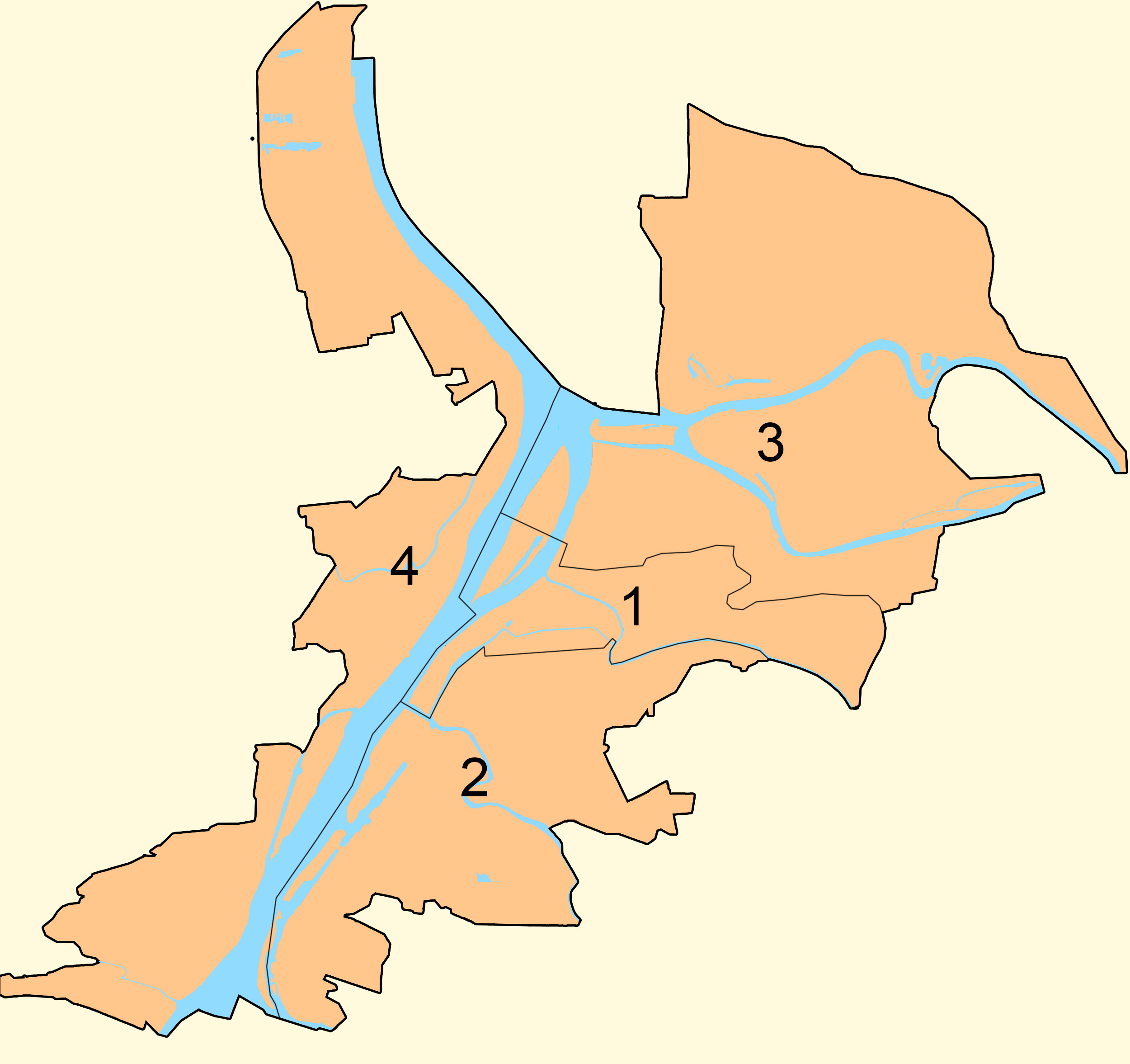 Astrakhan districts map, Russian ABC numbering